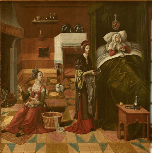 The legend of St. Emerentia (predella wings); The life of Anna; the life of Mary and the childhood of Christ (wings)